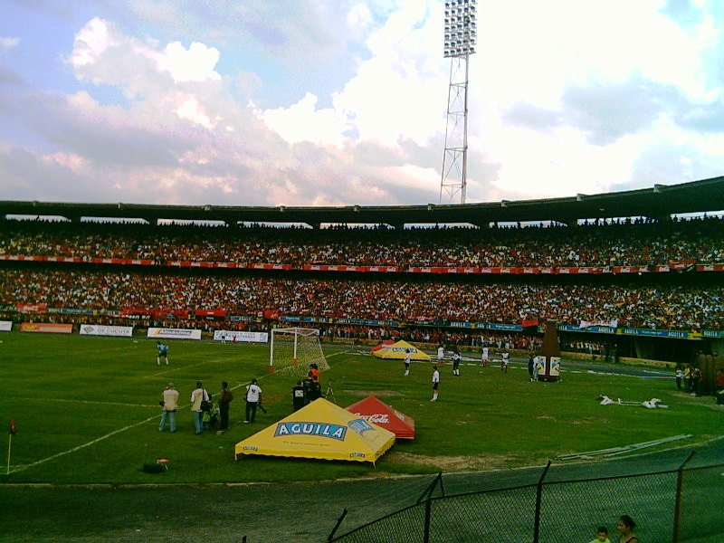 Author: Ricardo Ramírez Source: I took this with my camera / La tomé con mi cámara Tags:Cúcuta, Cúcuta Deportivo, General Santander